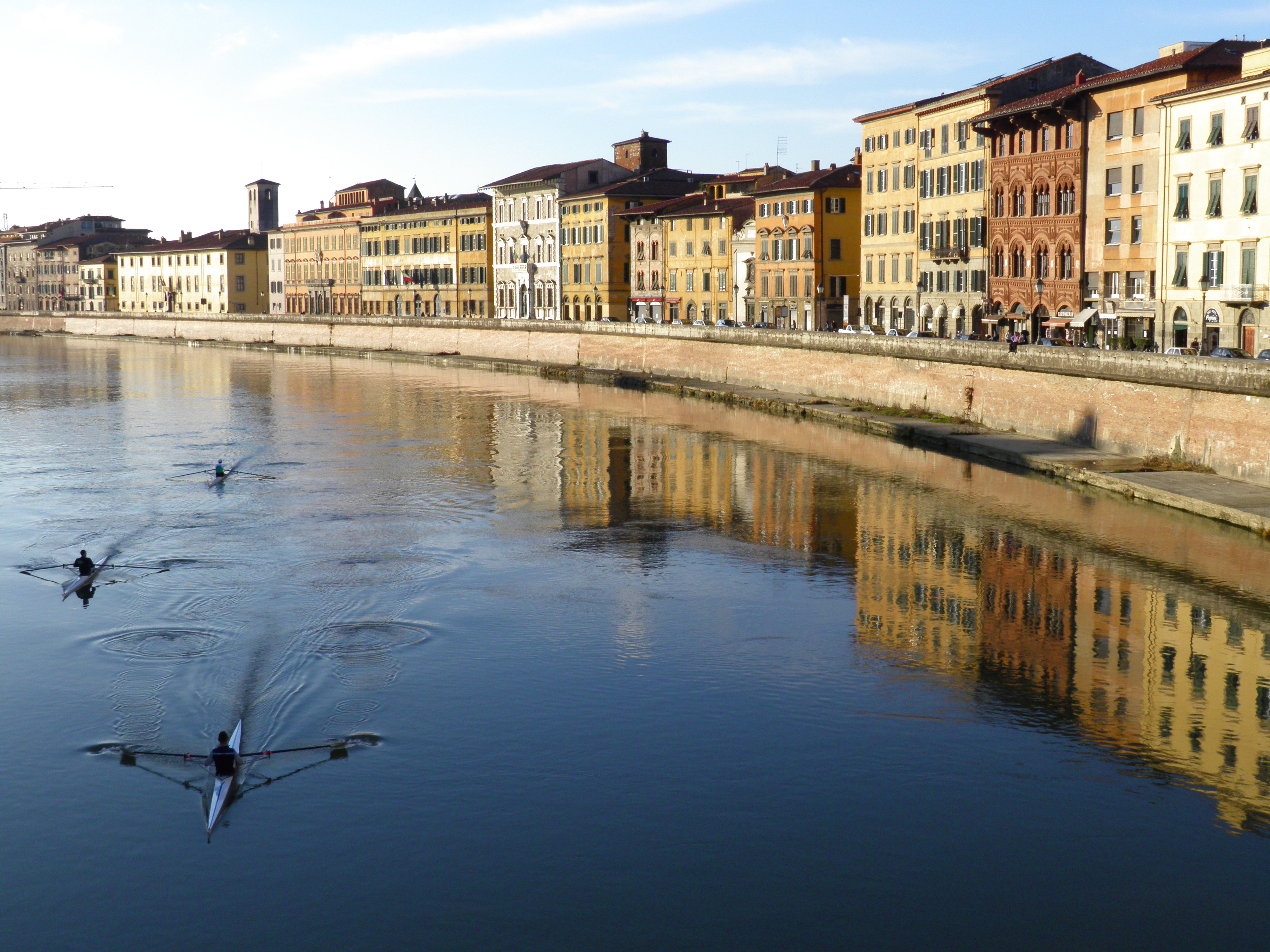 Lungarno Pacinotti from Ponte di mezzo, Pisa, Italy